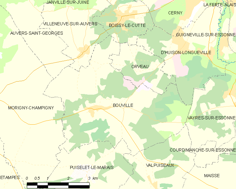 Map of French municipality Bouville